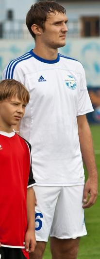 Viktor Zemchenkov with FC Chernomorets Novorossiysk.